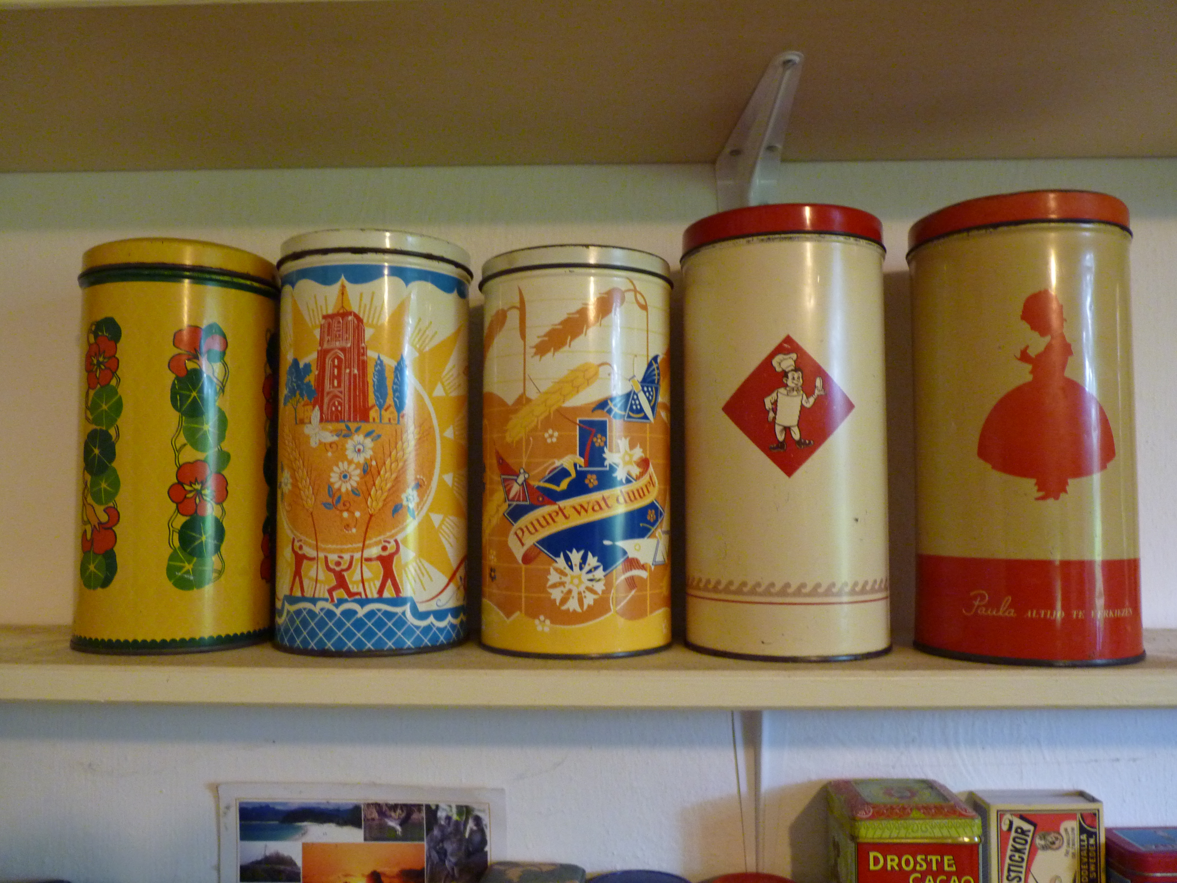 Dutch rusk tins